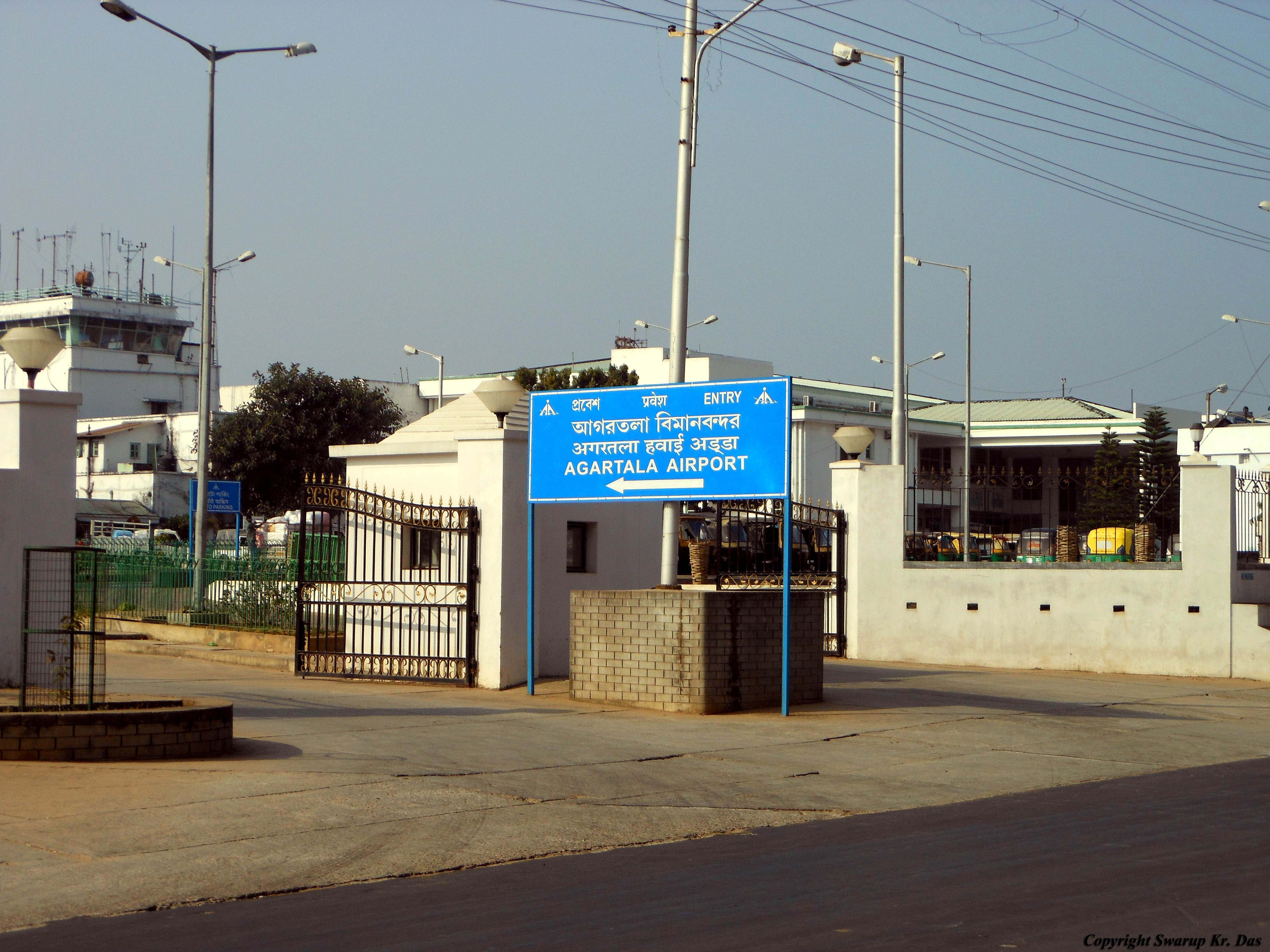 'Entrance gate of the airport', picture taken By SWARUP KR. DAS on 05th Dec 2012 Copyright owner Swarup Kr. Das a picture with a legal purpose